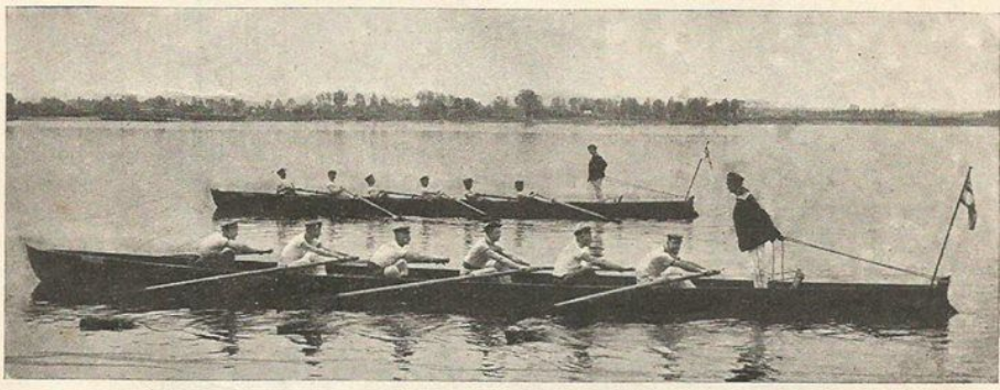 Płockie Towarzystwo Wioślarskie - dwie sześciowiosłówki w 1919